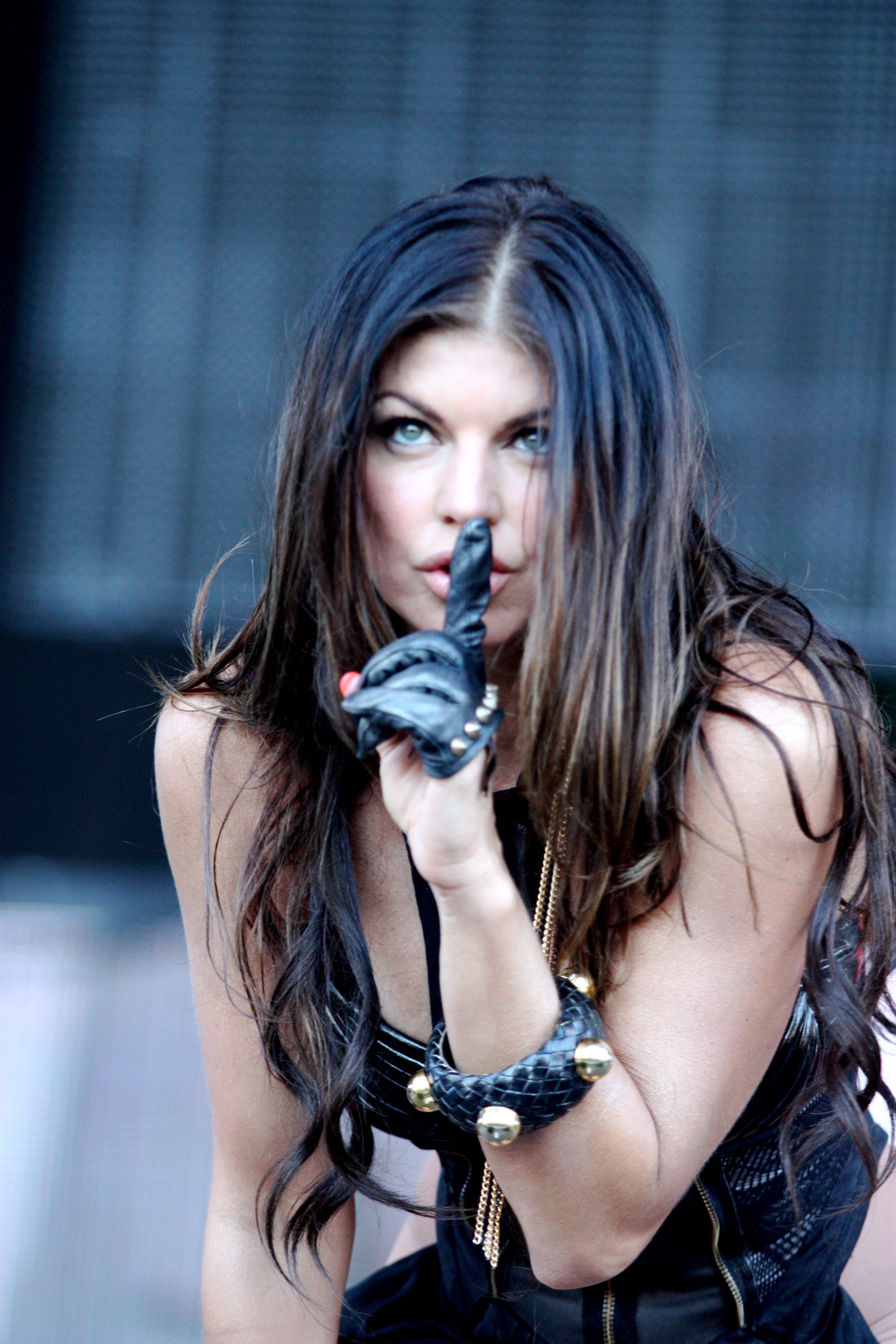 Fergie performing with Black Eyed Peas at Outside Lands 2009